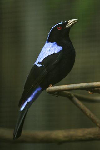 Asian Fairy-bluebird in San Diego Zoo.